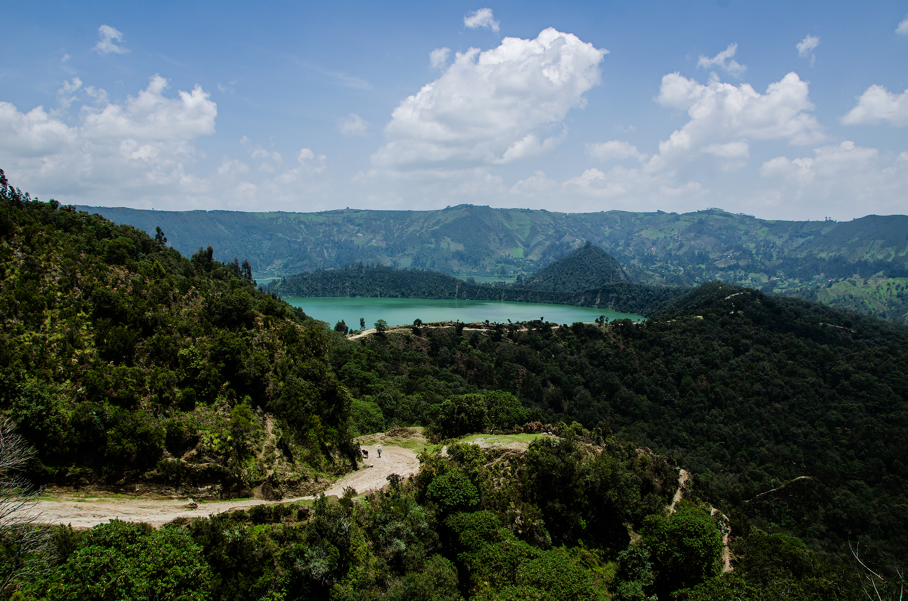 Wonchi lake is the most beautiful place in Ethiopia. This picture is taken on 20th September 2014, the raining season of Ethiopia.中文（中国大陆）: Wonchi火山湖是埃塞雨季最美的风景，这张照片拍摄于2014年9月20日。